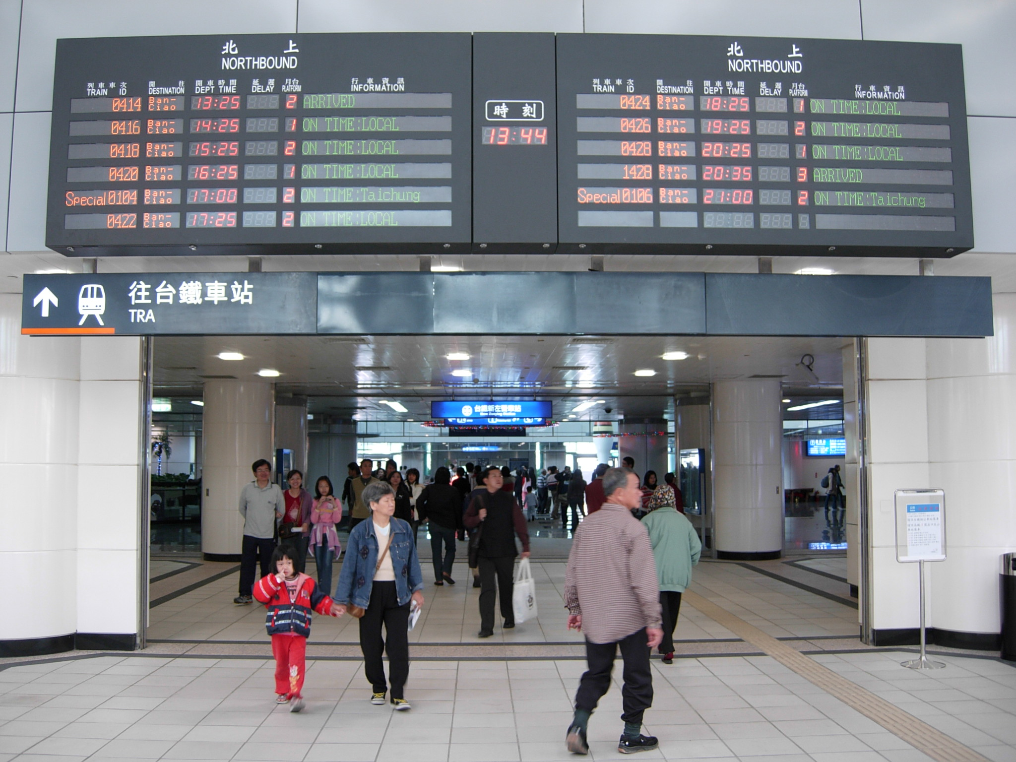 THSR Zuoying Station ←→ TRA New Zuoying Station Transfer Entrance